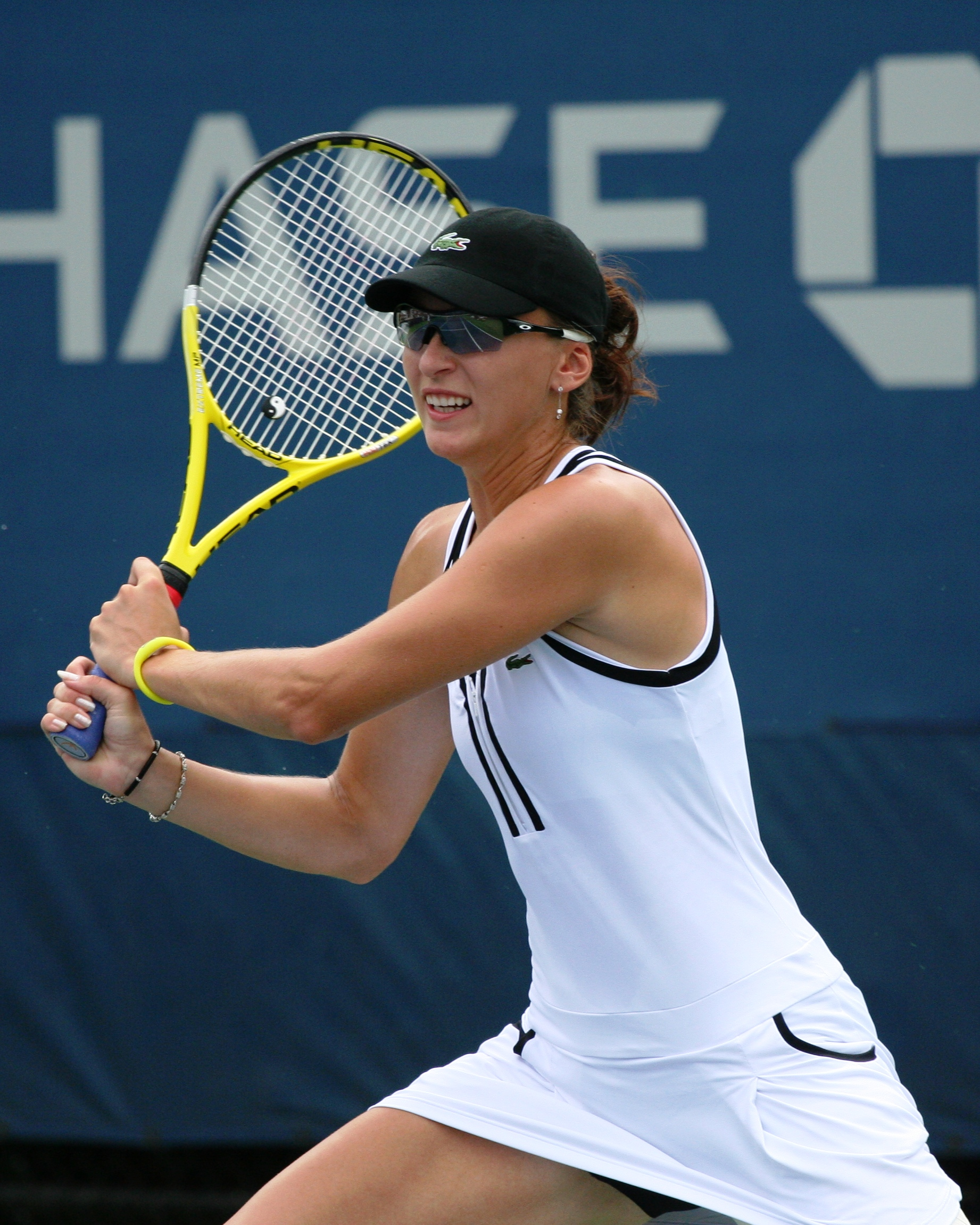 U.S. Open Friday, Sept. 3, 2010